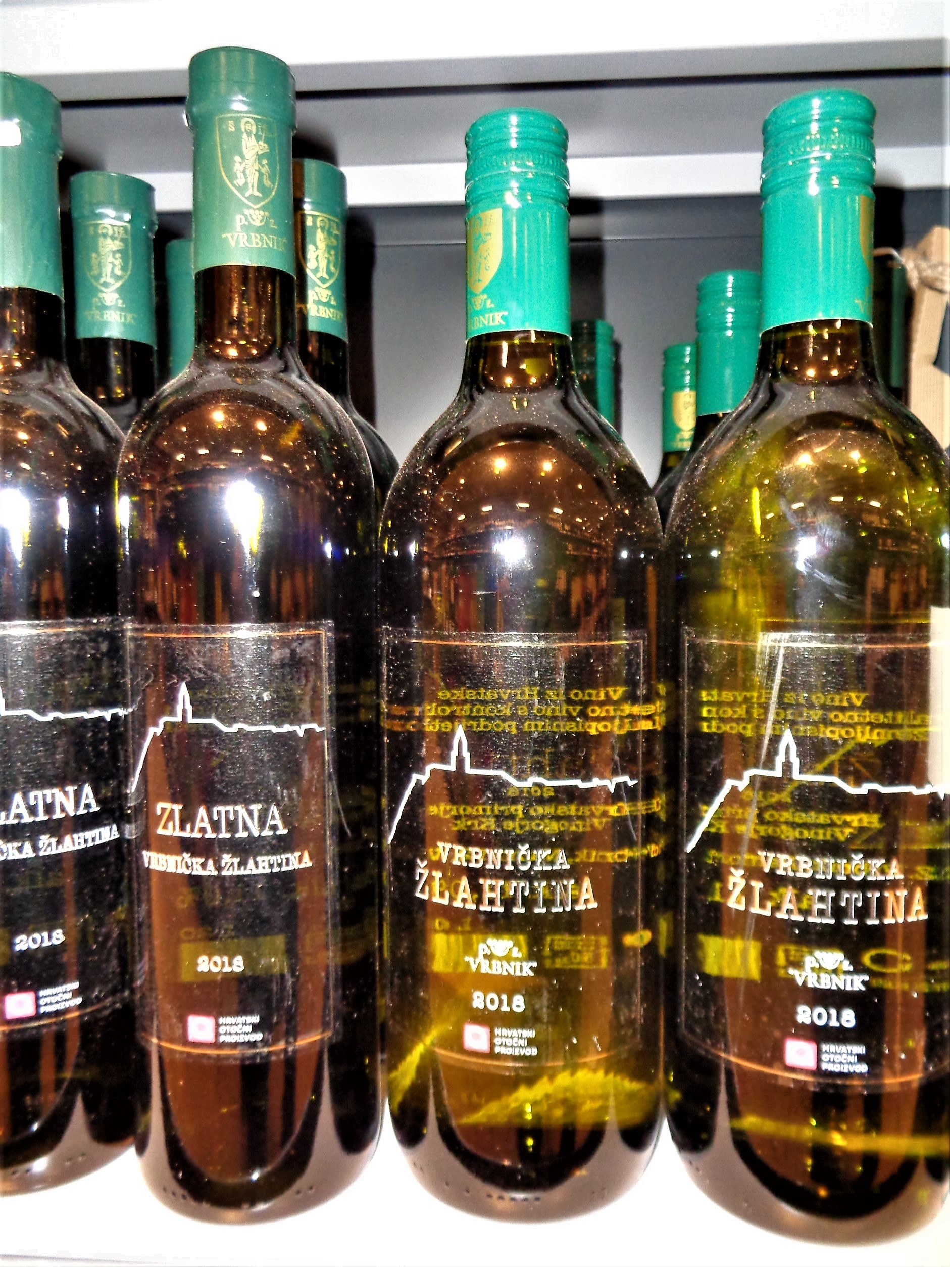 Bottles of Žlahtina wine, autochthonous quality white wine, produced on the island of Krk, Primorje-Gorski Kotar county, western Croatia